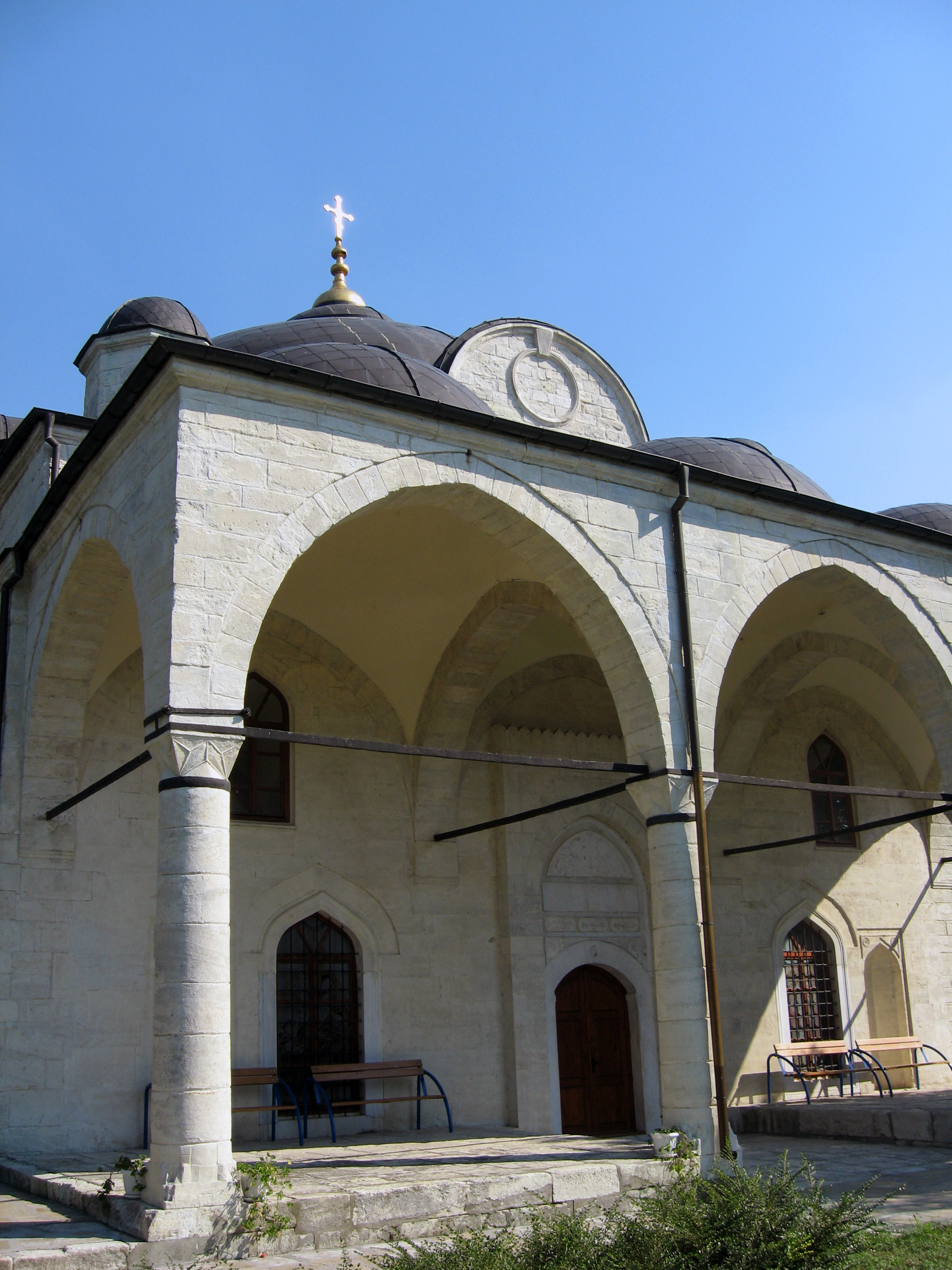 Church of the Assumption, Uzundzhovo, Bulgaria